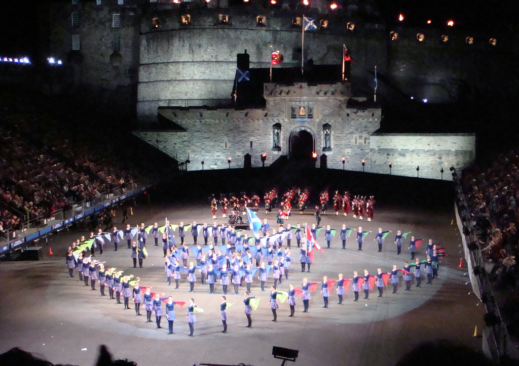 Edinburgh Tattoo